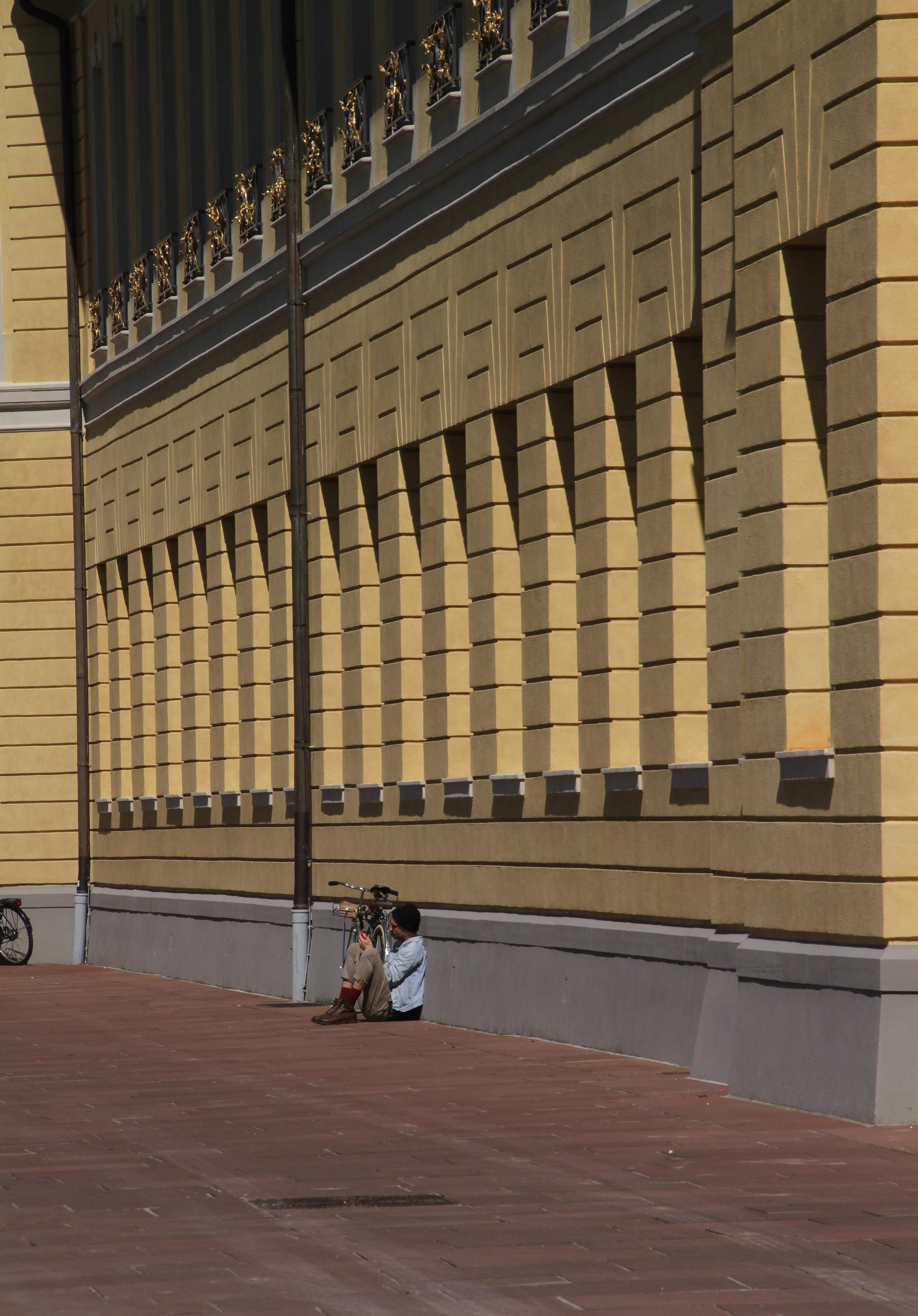 Karlsruhe Palace